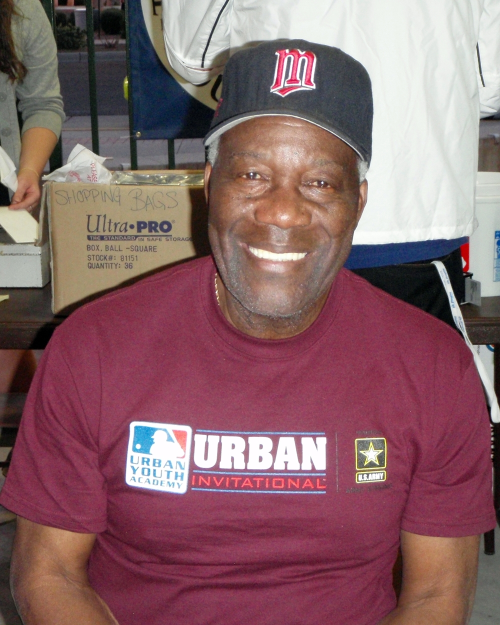 James Timothy "Mudcat" Grant, born August 13, 1935 in Lacoochee, Florida, is a former Major League Baseball pitcher who played for the Cleveland Indians (1958–64), Minnesota Twins (1964–67), Los Angeles Dodgers (1968), Montreal Expos (1969), St. Louis Cardinals (1969), Oakland Athletics (1970 and 1971) and Pittsburgh Pirates (1970–71). He was named to the 1963 and 1965 American League All-Star Teams.